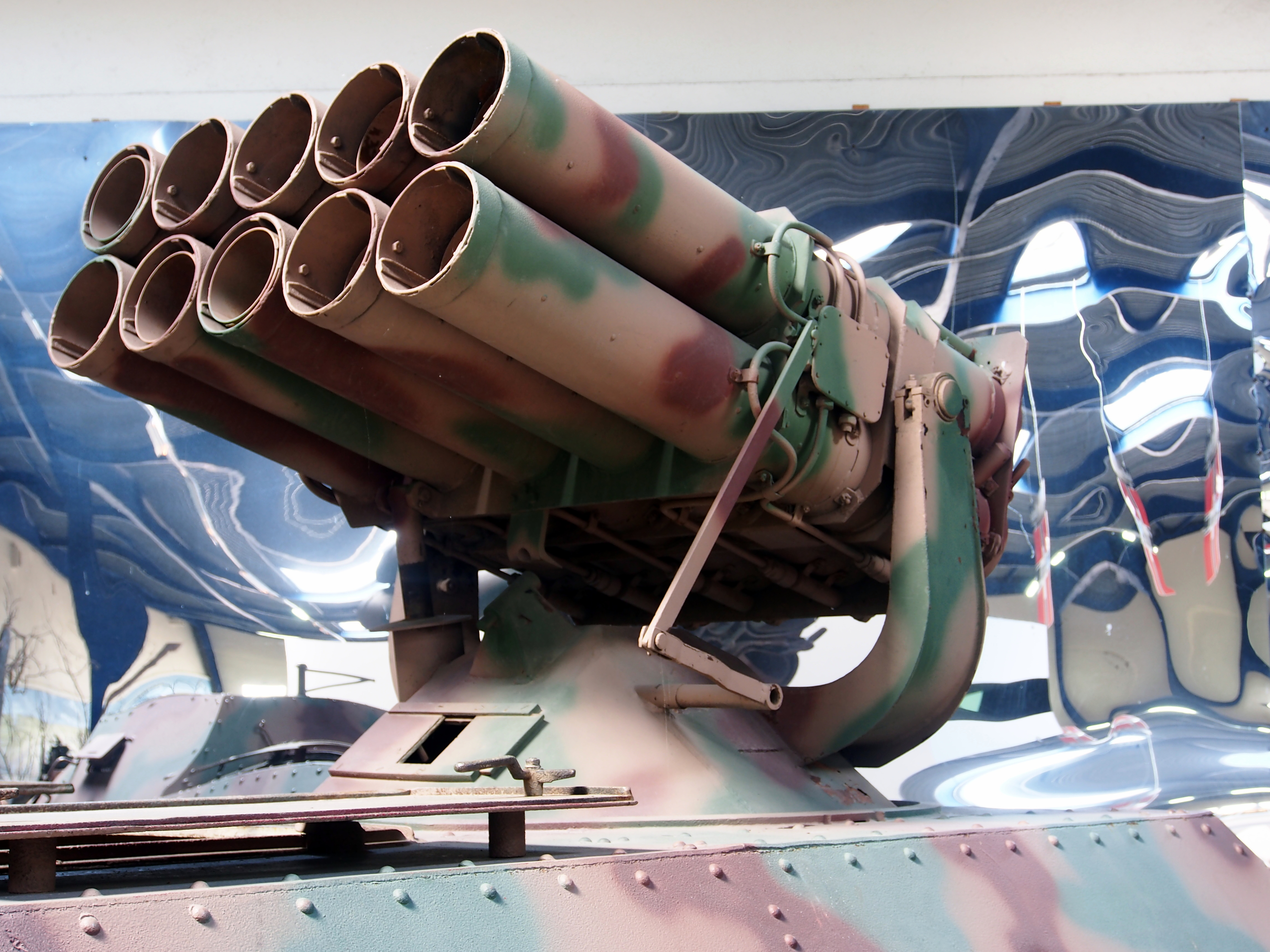 Photographed in the Musée des Blindés, France.